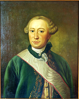 Johann Bartholomäus von Busch (1680-1739), kurpfälzischer Jurist, Hochschullehrer, Diplomat und Politiker.